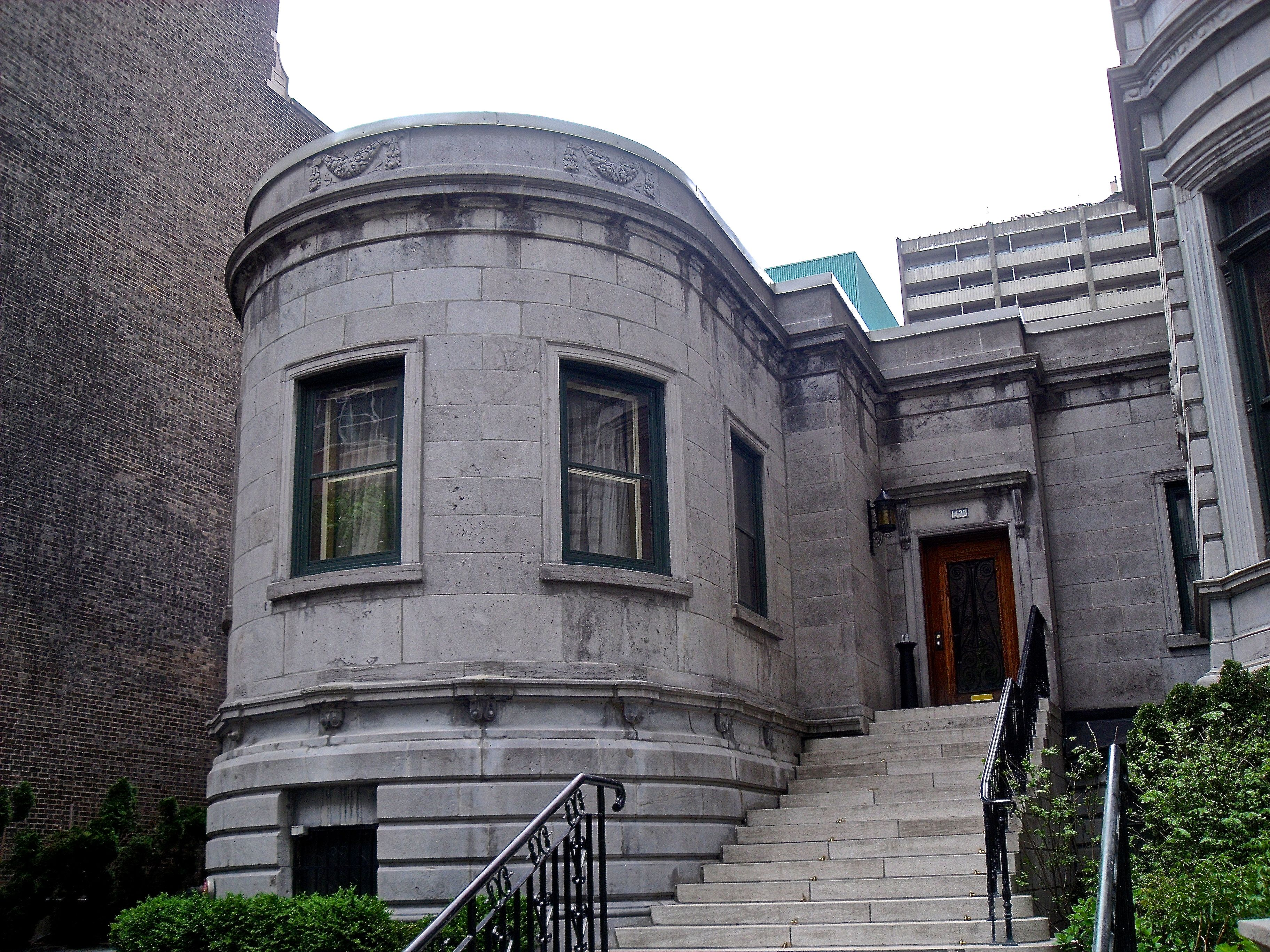 George Stephen House (1883), also known as the Mount Stephen Club Building, 1430–1440 Drummond Street, Montreal, Quebec, Canada.